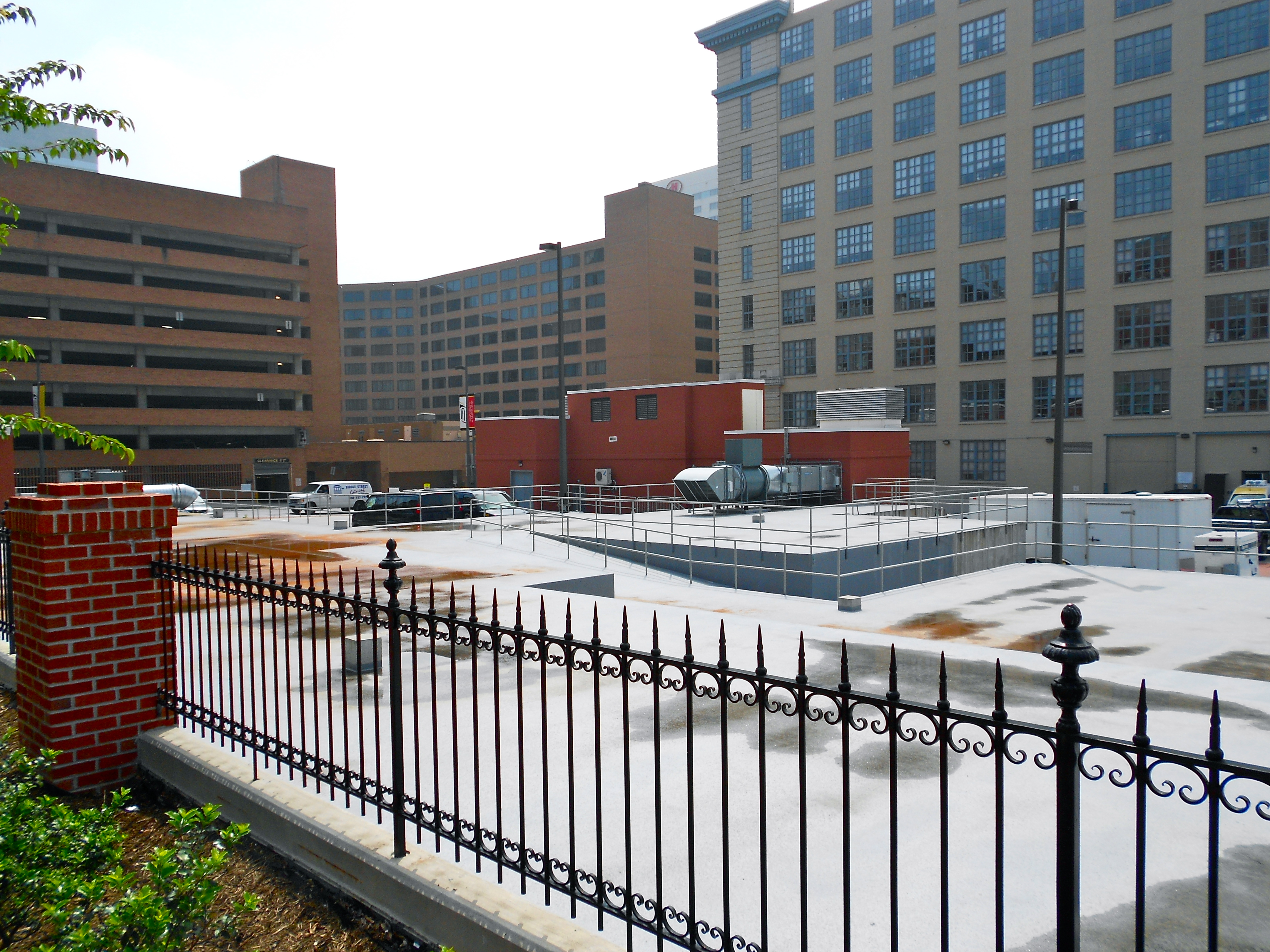 Site of Turner-White Casket Company on the NRHP in Baltimore, now a parking lot.